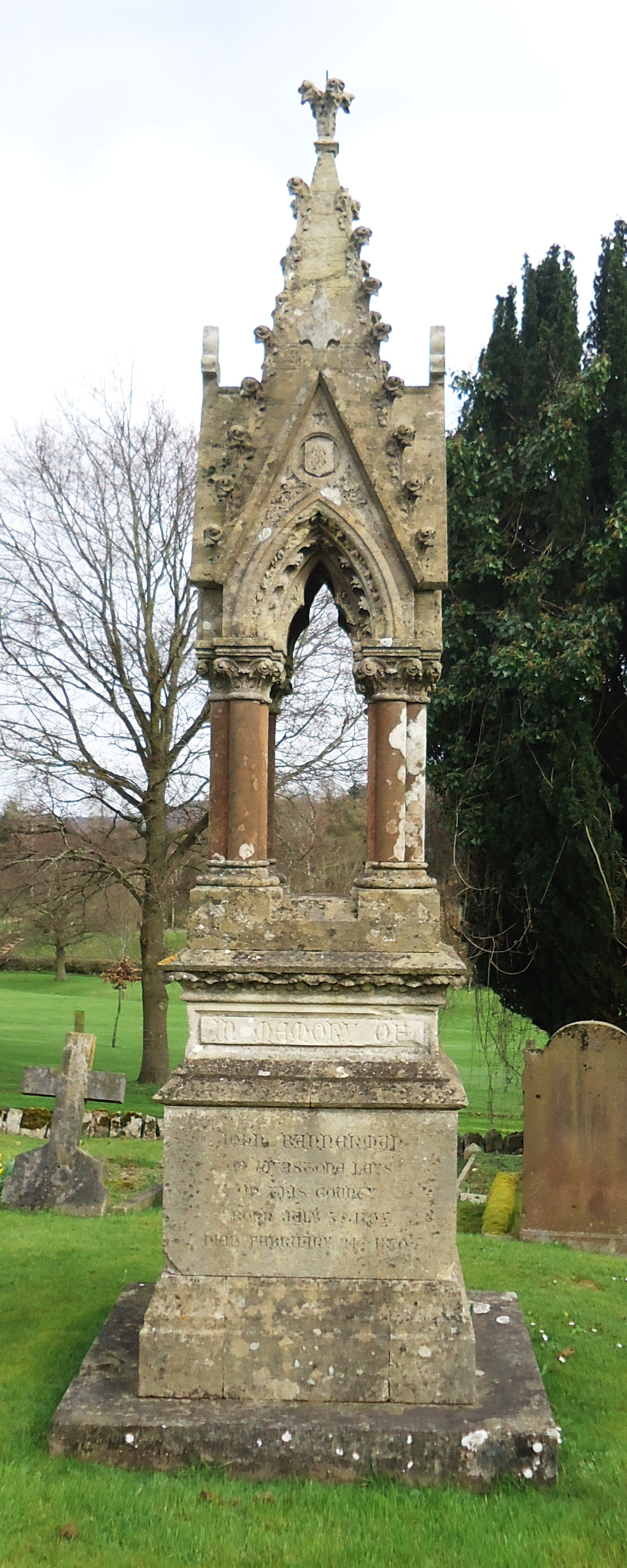 St.Swithin's, Ganarew, Herefordshire